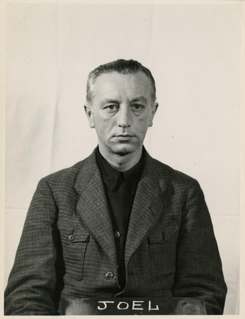 Günther Joel (1903-?) was a high ranking official (Ministerialrat) in the German Ministry of Justice (Reichsjustizministerium) during the Second World War. This photograph of Joel (probably as a defendant during the Nurmeberg Trials No. III - the Justice Case) was taken by US Army photographers on behalf of the Office of the U.S. Chief of Counsel for the Prosecution of Axis Criminality (OUSCCPAC, May 1945 - Oct. 1946) or its successor organization, the Office of Chief of Counsel for War Crimes (OCCWC, Oct. 1946 - June 1949).